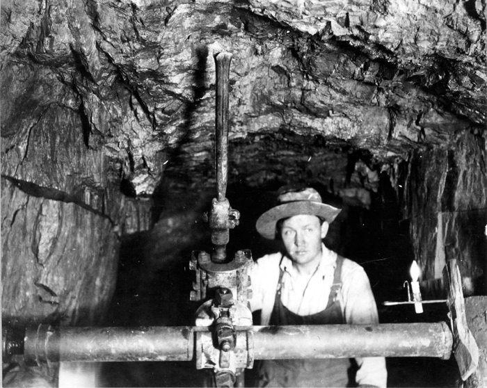 United copper mine, Stevens County state, USA. The miner is using a pneumatic drill mounted on a crossbrace. Note the candle next to the miner's left shoulder.